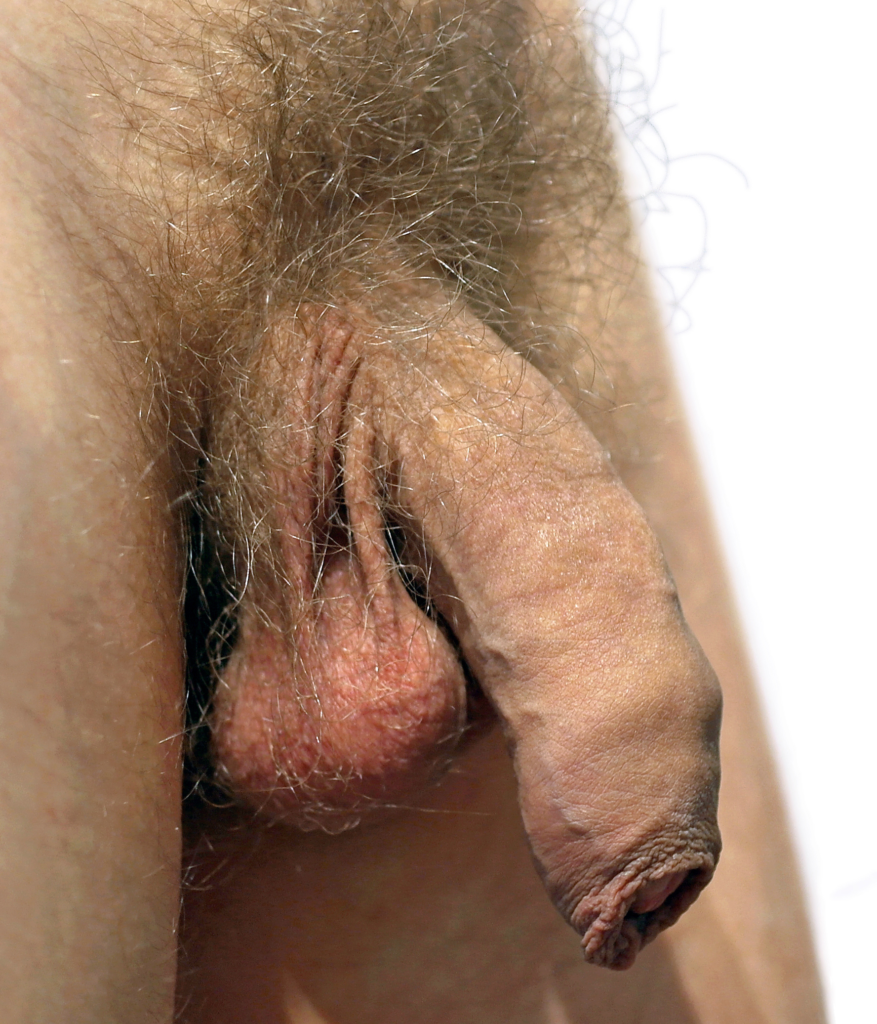 Genitalia of a Southern-European male, 30 years. Flaccid penis with foreskin. Penis length: flaccid approx. 9.5 cm = 3.7 in, erect approx. 16.3 cm = 6.4 in, measured upside Penis width: flaccid approx. 3 cm = 1.2 in , erect approx. 3.8 cm = 1.5 in Penis circumference: flaccid approx. 9.5 cm = 3.7 in, erect approx. 12.3 cm = 4.8 in Read my comments here: 123GLGL